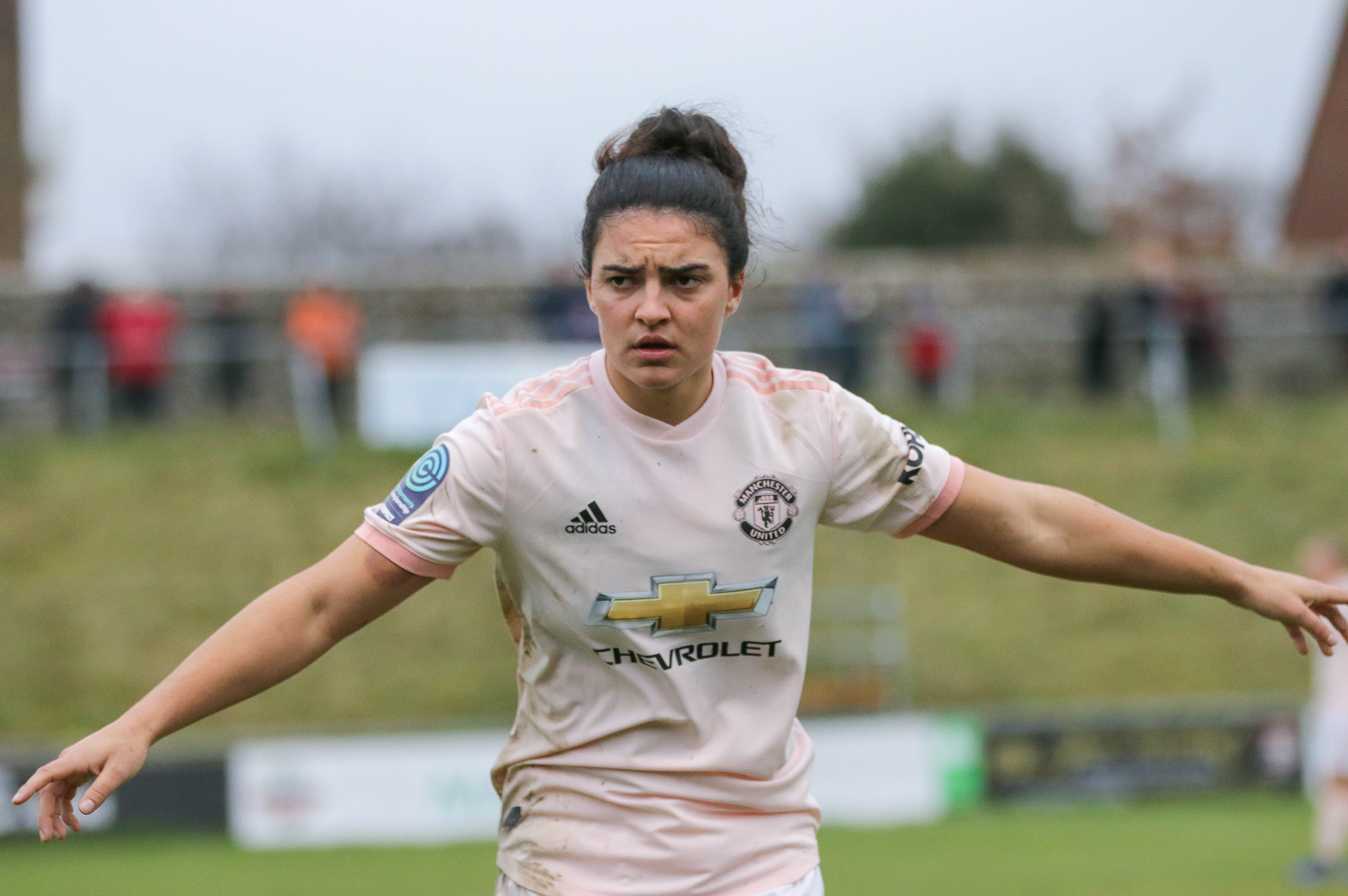 Manchester United footballer Jess Sigsworth